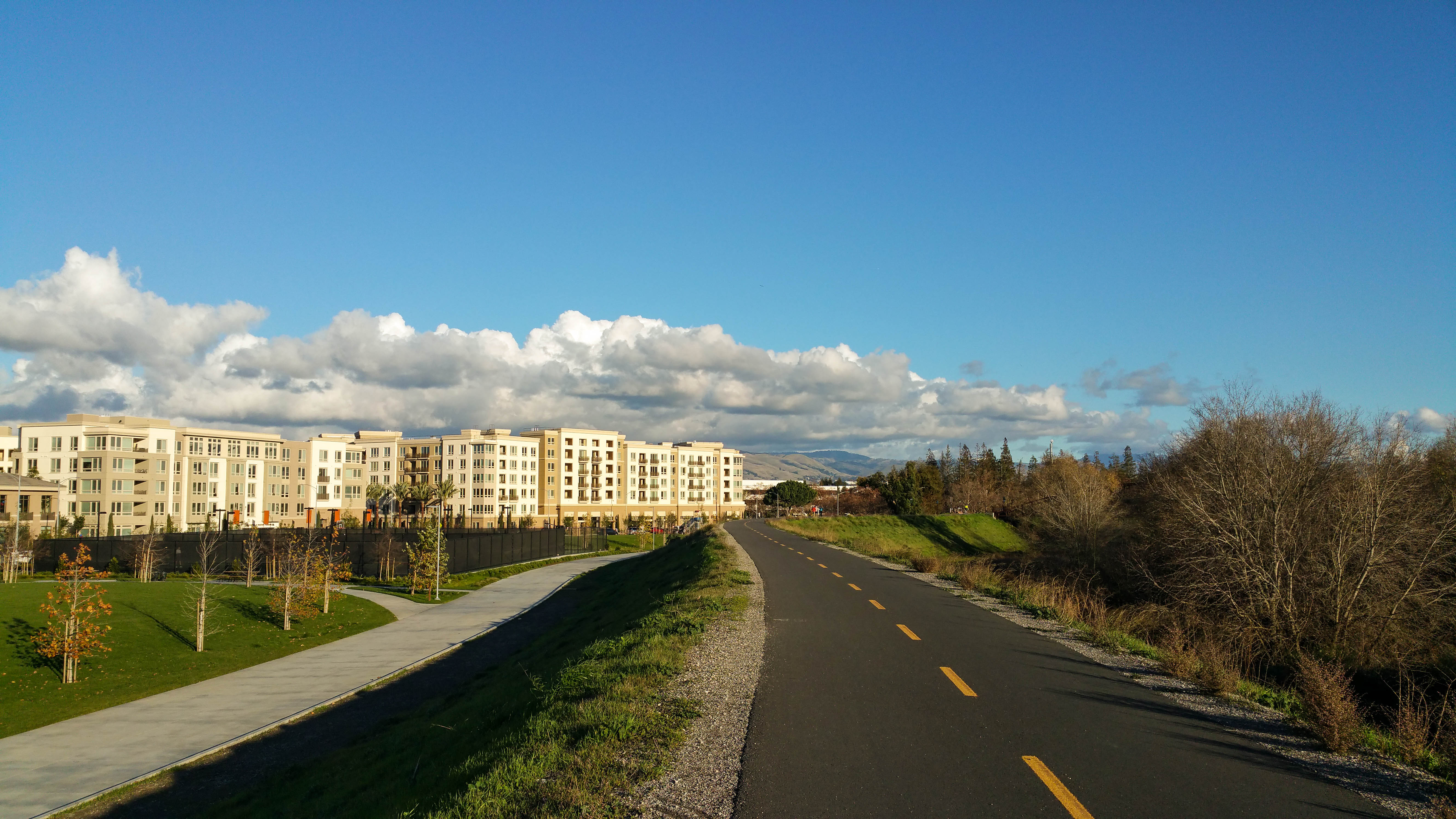 Looked beautiful that afternoon with the rain clouds in the valley